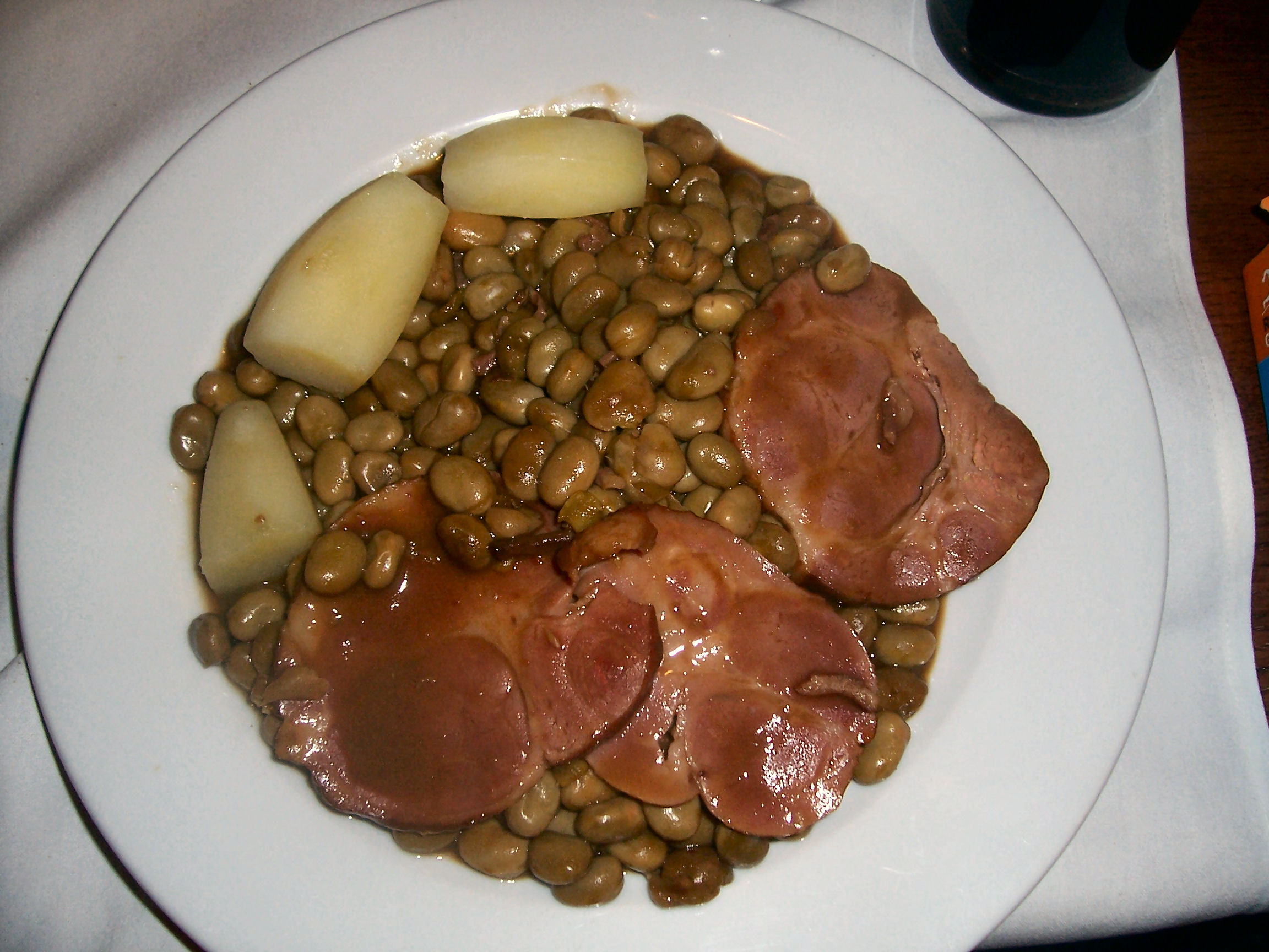 "Judd mat Gaardebounen" or Smoked Collar of Pork with Broad Beans, Luxembourg's national dish.